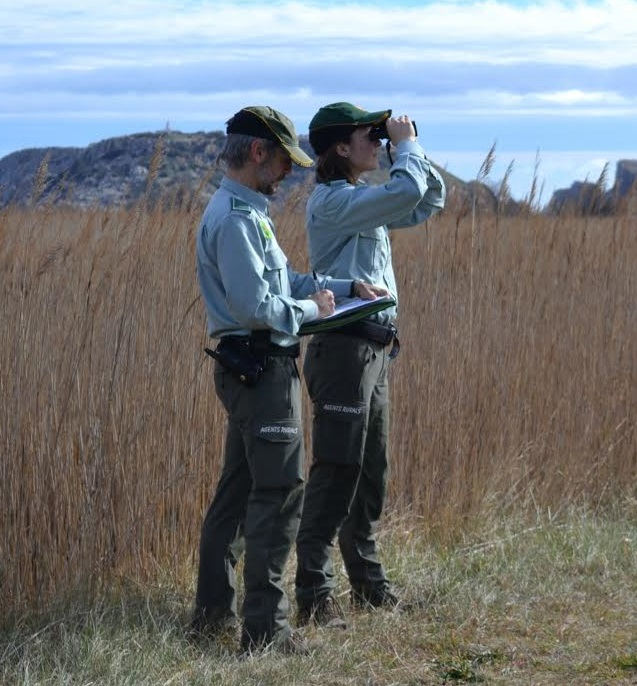 Members of Ranger Corps of the Government of Catalonia